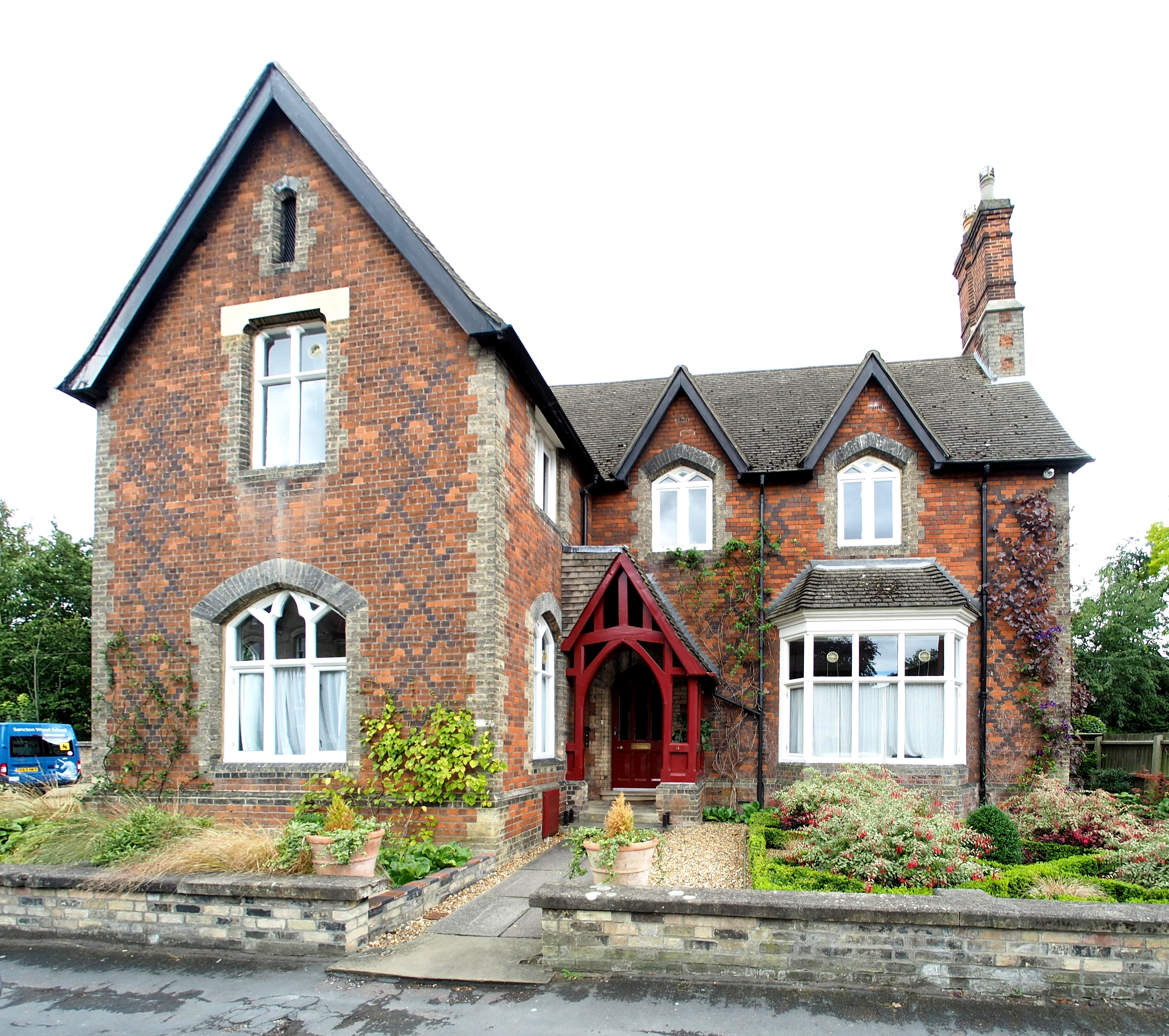 Cambridge Muslim College, 14 St Paul's Road, Cambridge. A former vicarage designed in 1847 by Sir George Gilbert Scott (1811-1878).